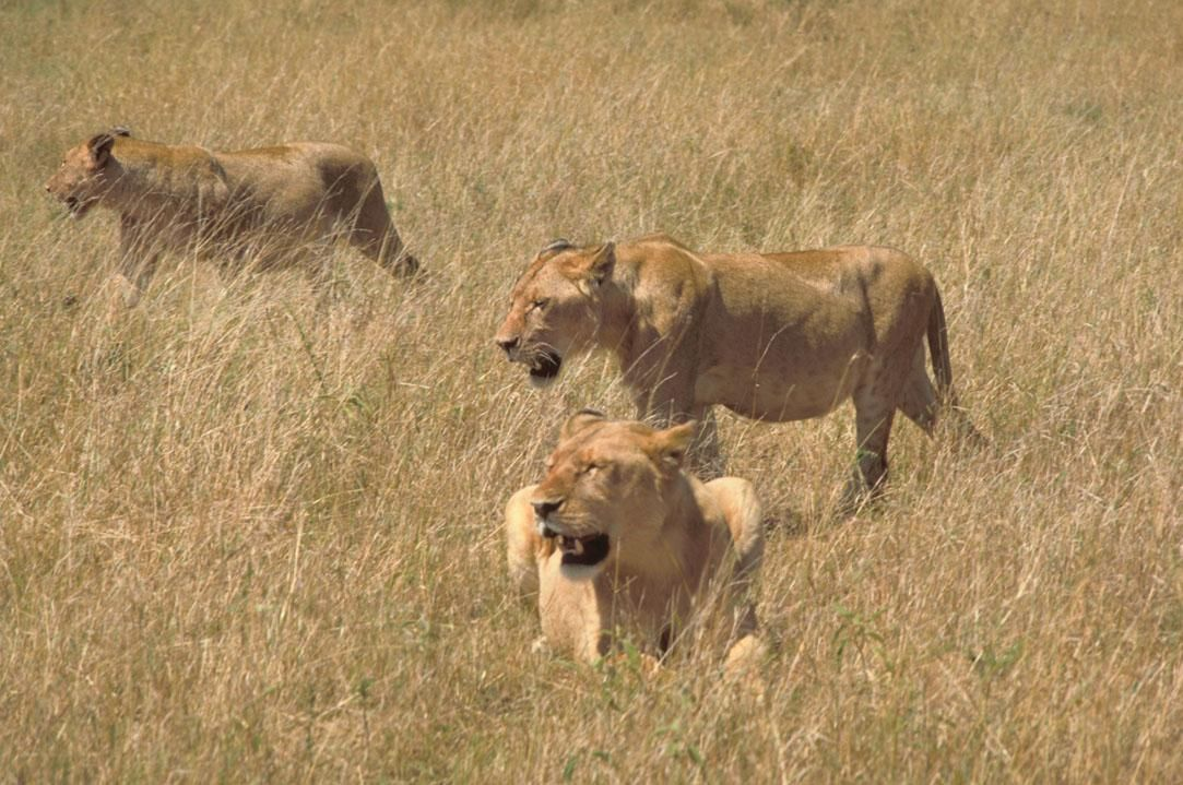 Image title: African lions in hunting Image from Public domain images website